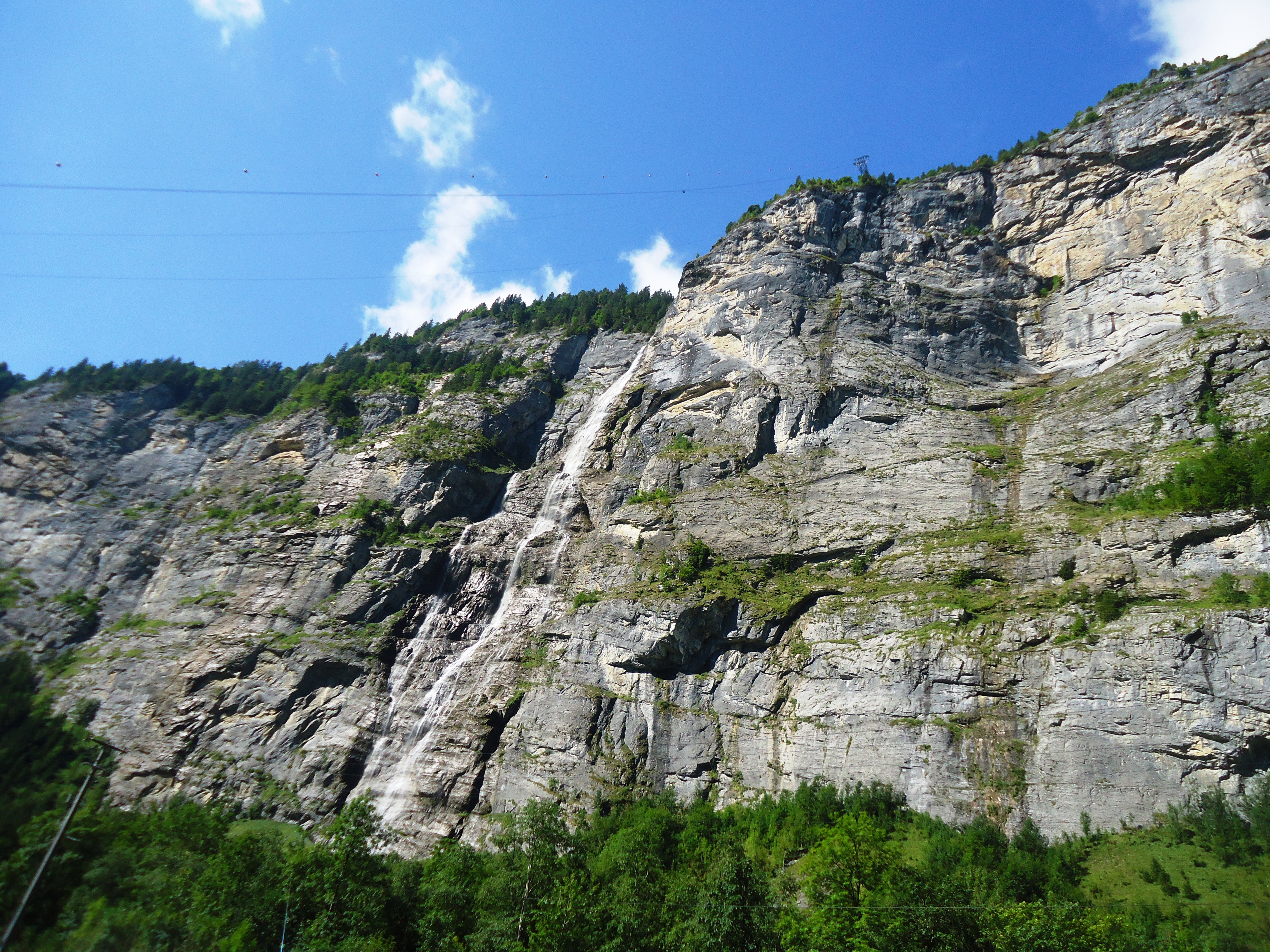 One of the many waterfalls in the Lauterbrunnen valley